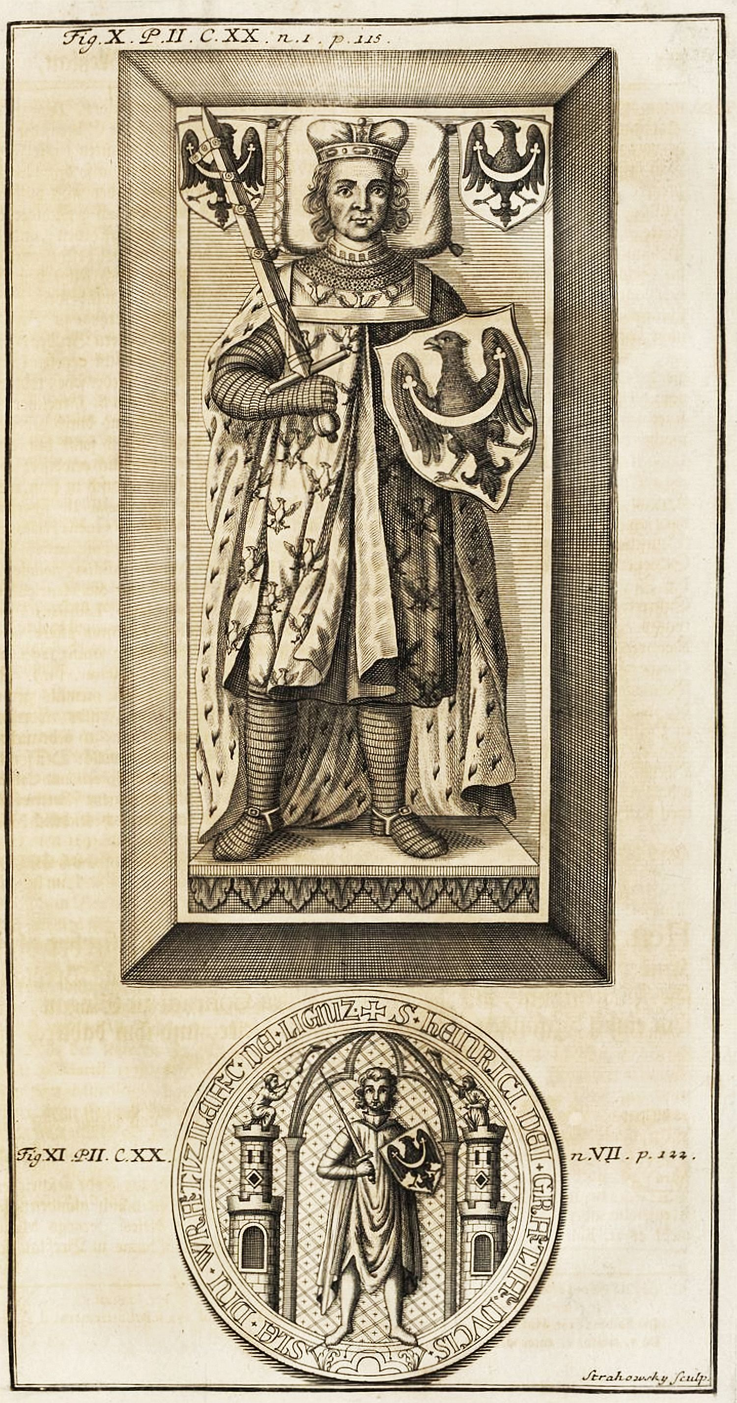 Tomb and the seal of duke Henryk IV Probus. Illustration to „Liegnitzische Jahrbücher” by Georg Thebesius, Jauer (Jawor), 1733